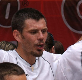 Zvonimir Boban